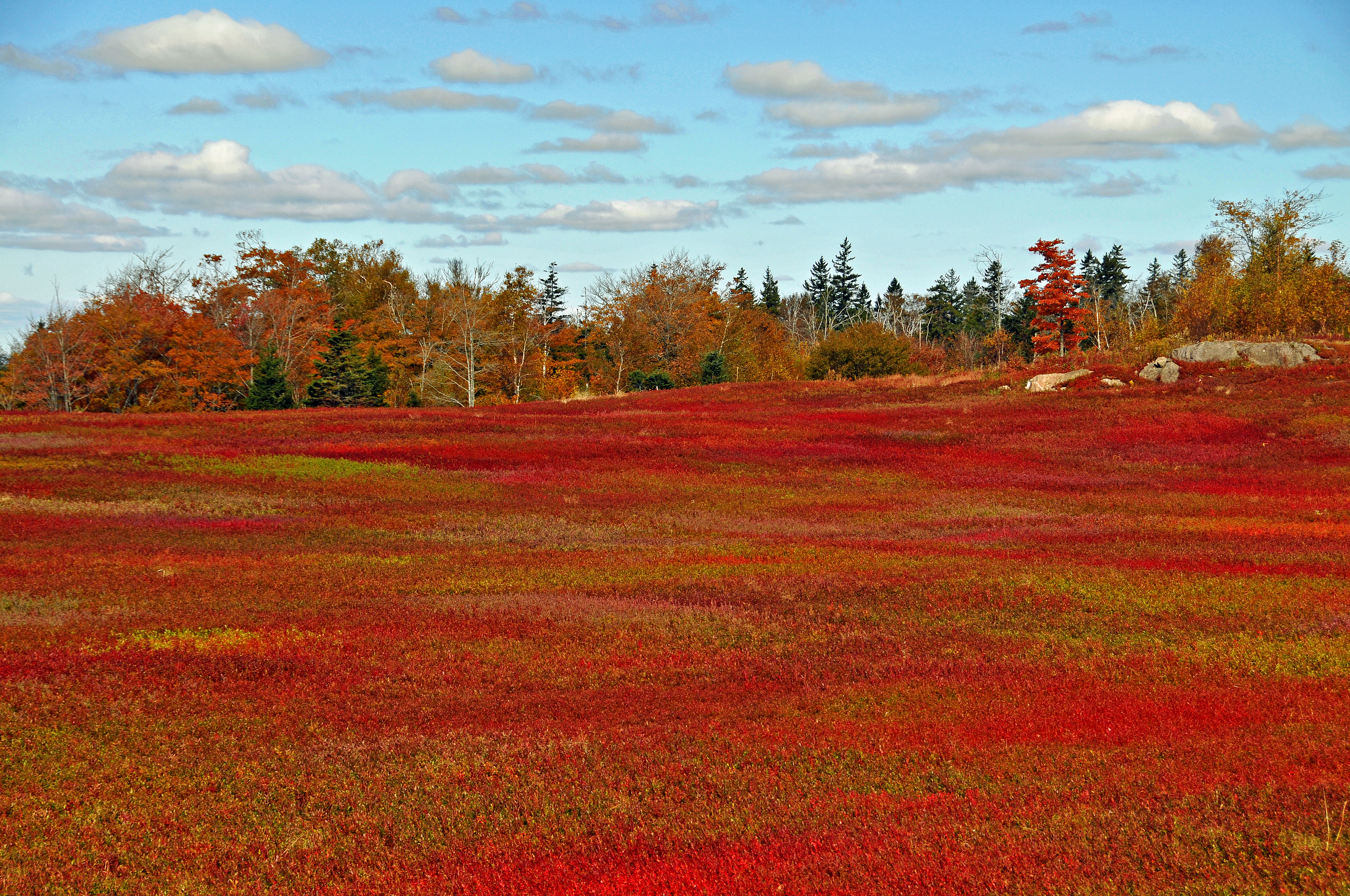 Wild blueberry fields in the fall near Parrsboro, Nova Scotia, Canada